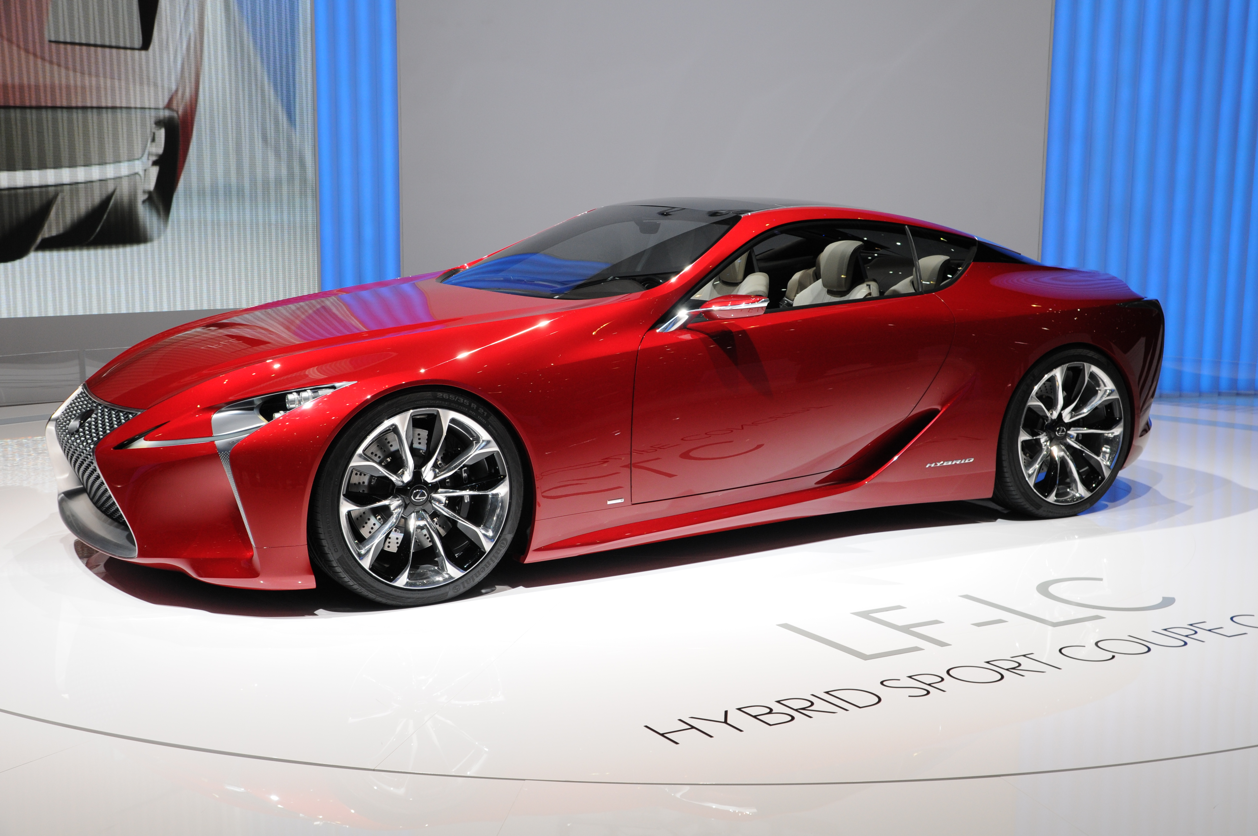 Geneva Motor Show 2012 (photos taken on the second press day)